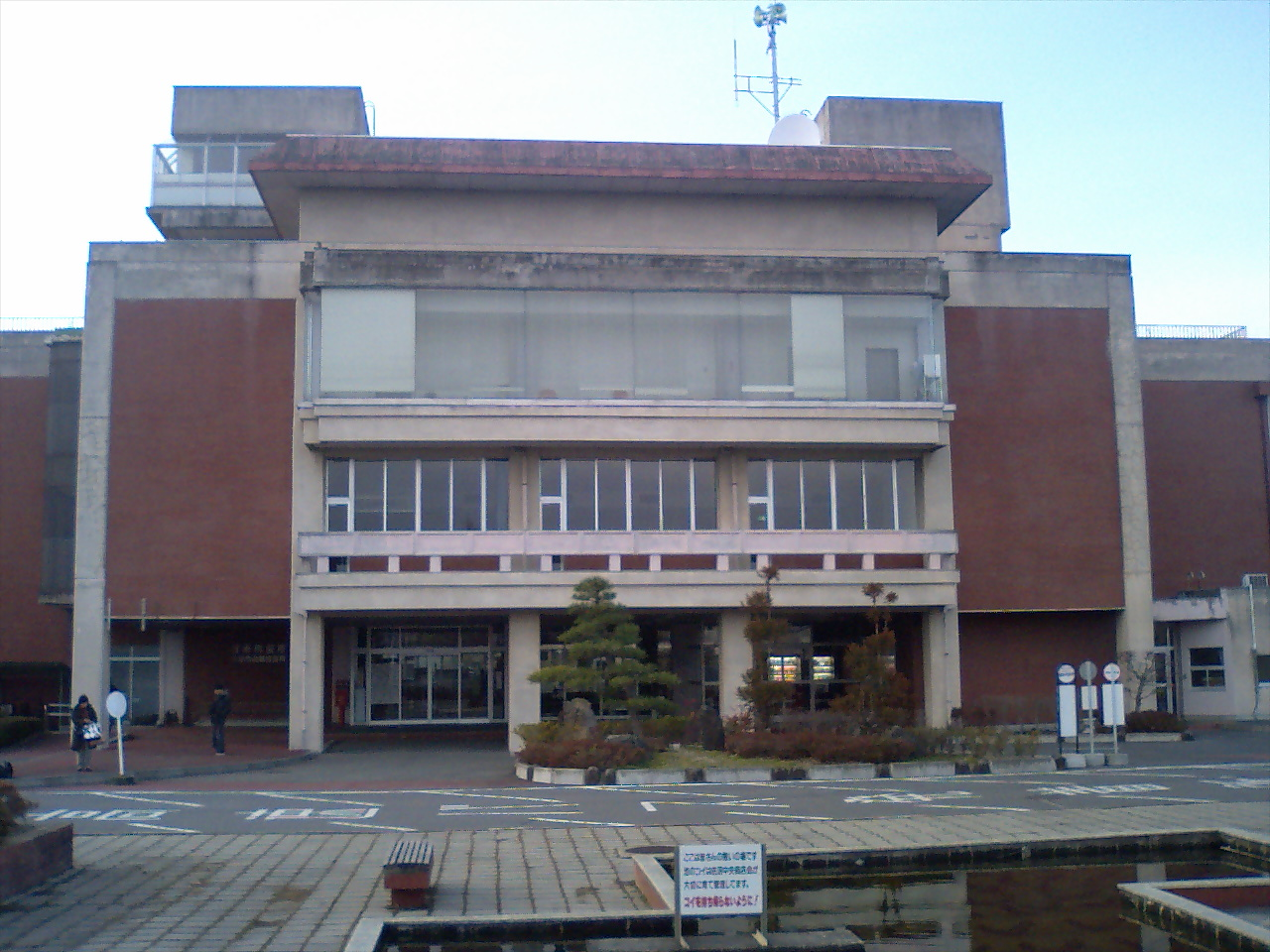 Tome city hall. (Miyagi-pref. Japan)